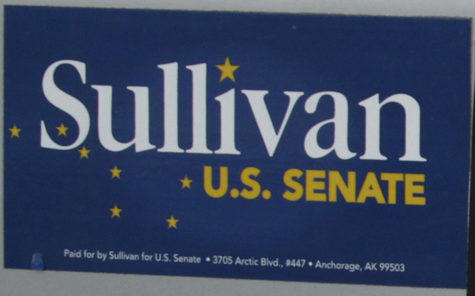 A Haines mayoral campaign sign taped to the tailgate of a pickup truck bears a handwritten addendum on Oct. 15, 2014, two weeks after the borough's municipal election. (James Brooks photo)